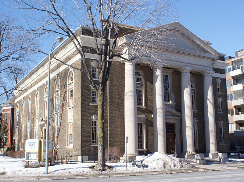 Westmount Baptist Church, 411 avenue Roslyn, Westmount, Quebec, Canada, H3Y 2T6